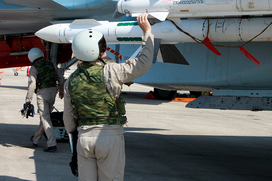 Russian military aircraft at Latakia, Syria